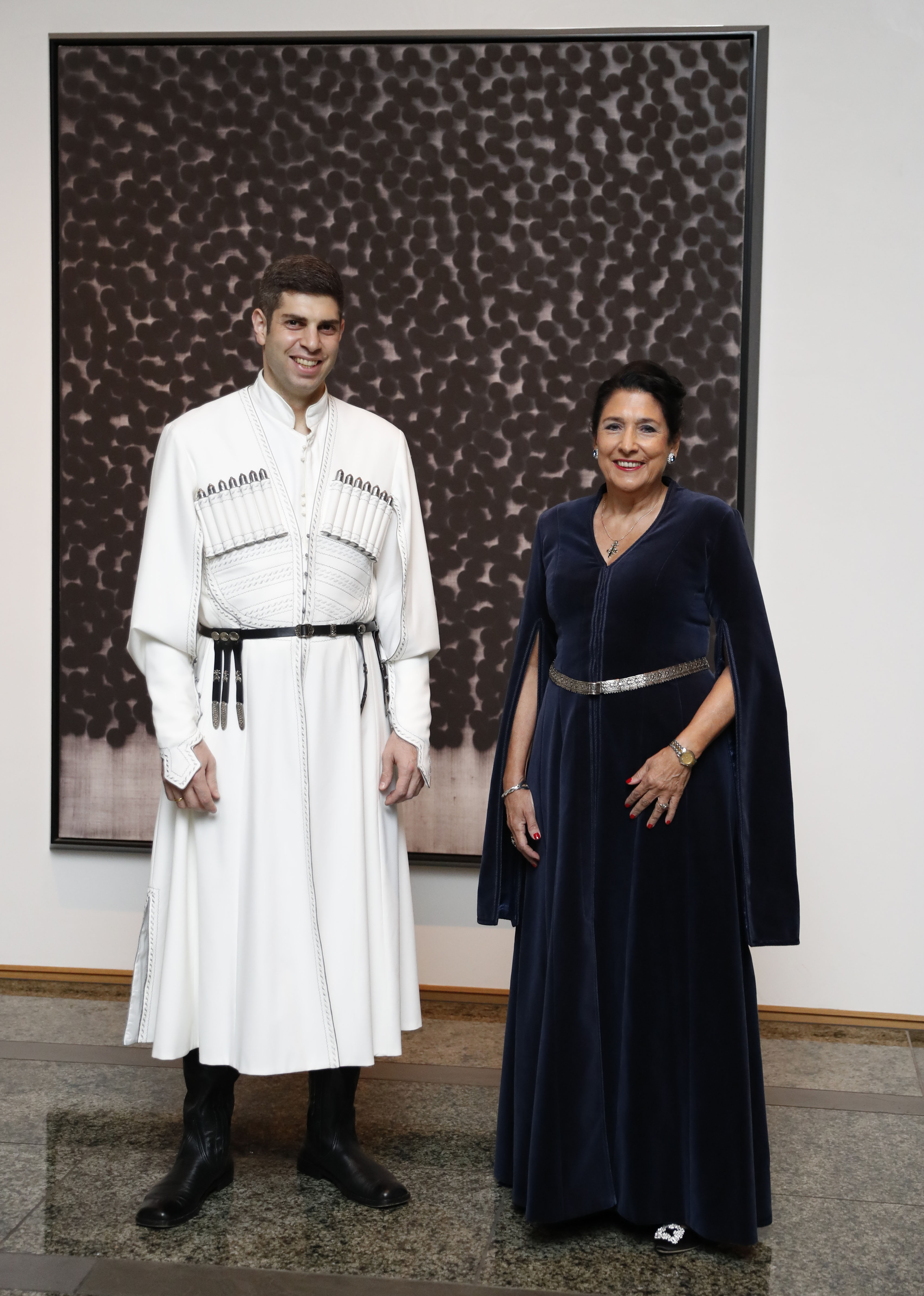 Georgian President Salome Zourabichvili standing next to Georgian chargé d'affaires ad interim to Japan Teimuraz Lezhava during the enthronement ceremony of Emperor Naruhito.